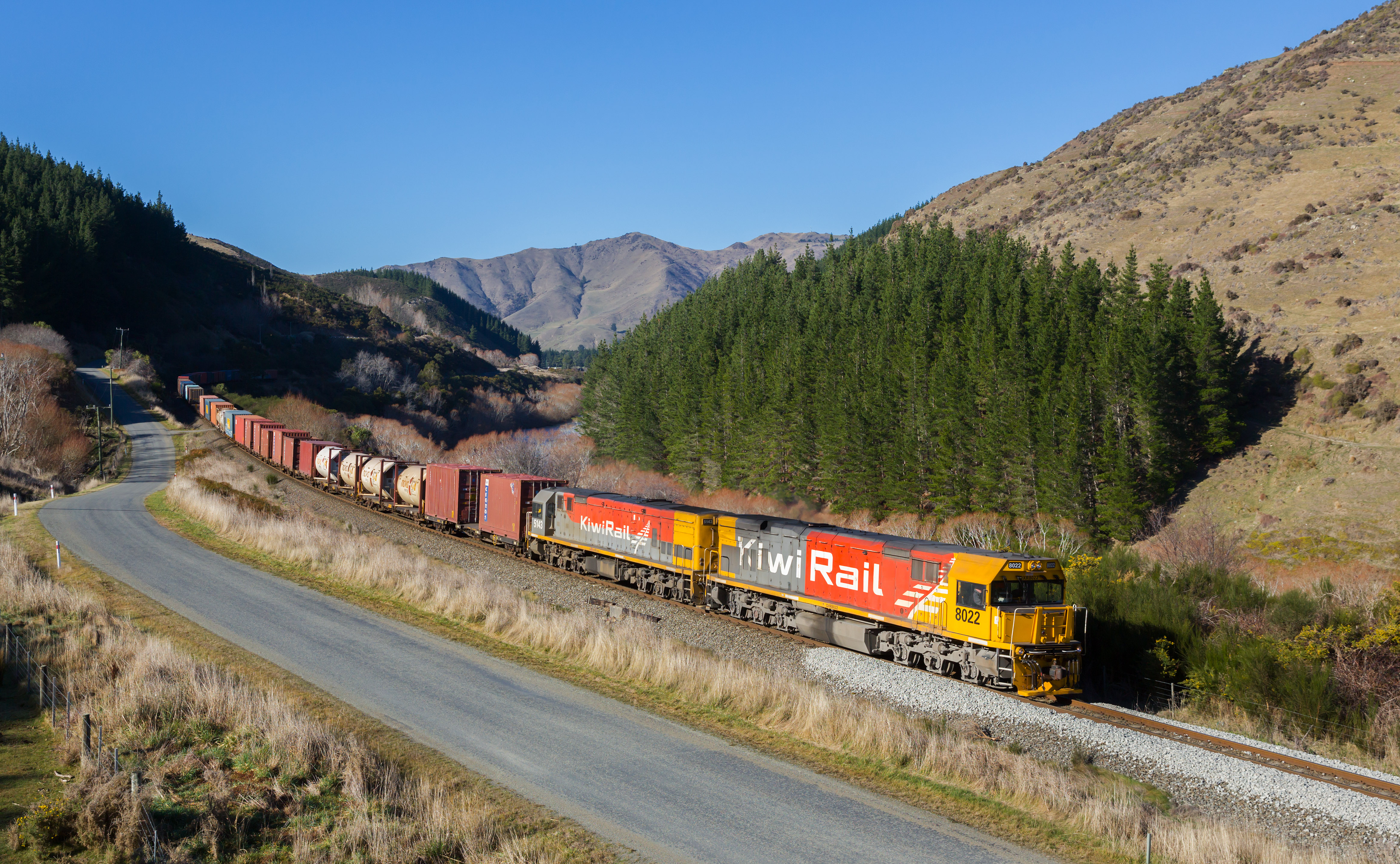 KiwiRails DXR 8022 and DXB 5143 haul a container train from Picton to Christchurch. Pictured at Ethelton, New Zealand.